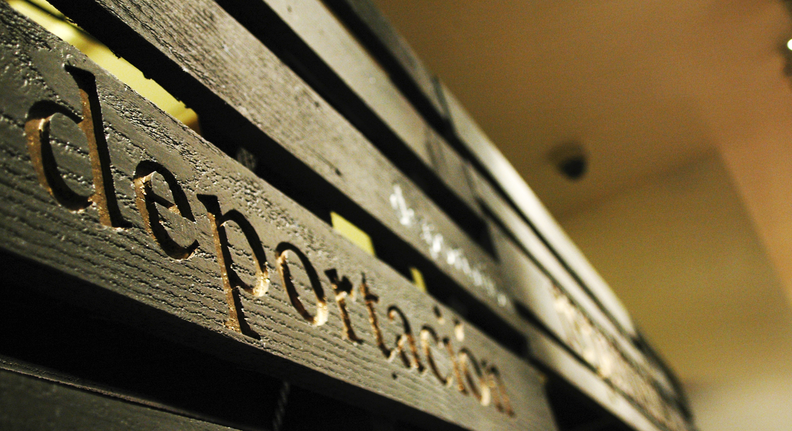 The LA Plaza de Cultura y Artes, Los Angeles’ first Mexican-American cultural center, opened its doors to the public during its grand opening in downtown Saturday, April 16. The Smithsonian Affiliate is a 2.2-acre facility is dedicated to celebrating the influence of Mexican and Mexican-American culture on Southern California. Although many people enjoyed the free live music, art workshops, and tours, members of Gabrieleno Band of Mission Indians protested across the street with chants like “The people who there are grave robbers,” and “Shame on you Los Angeles.” People who attended were able to tour the center’s interactive exhibit “LA Starts Here!” that showcases artifacts, films, and mosaics from 1781 to today. (Photo credit: Jeffrey Ledesma/ Neon Tommy)